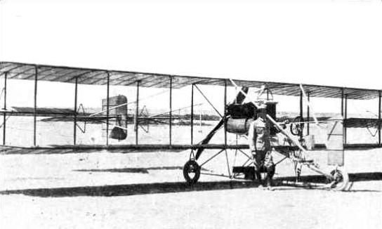 Curtiss-Martin aircraft used in 1913 by the mexican Constitutionalist Army against president Victoriano Huerta.